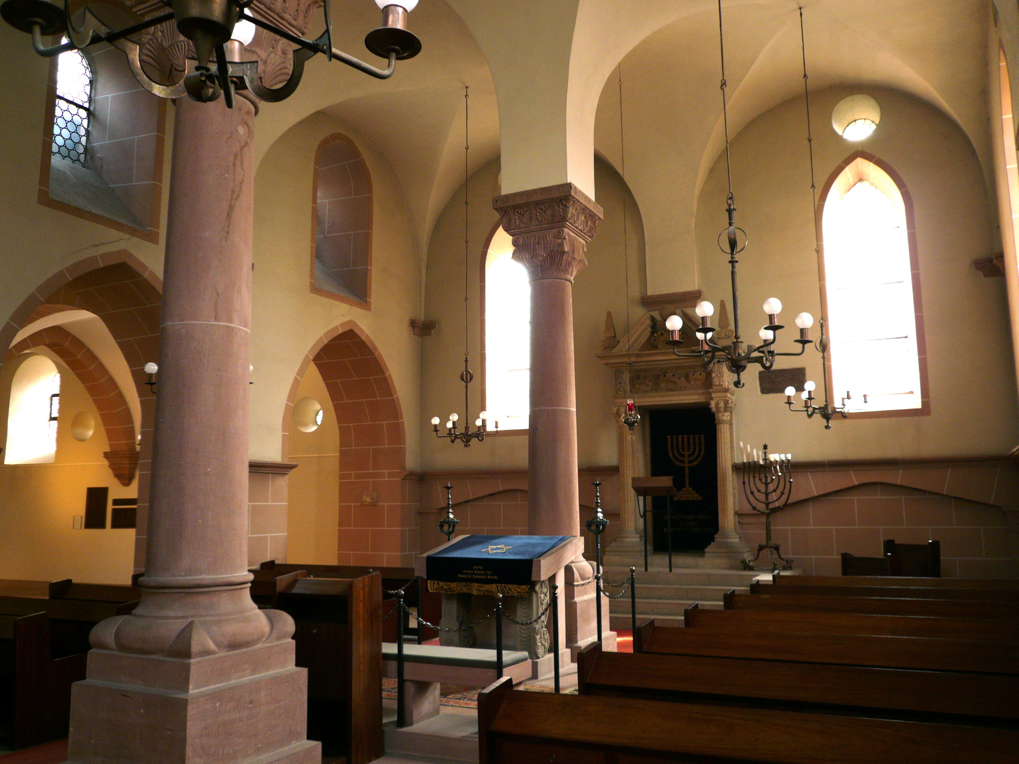 Synagogue at Worms, inside